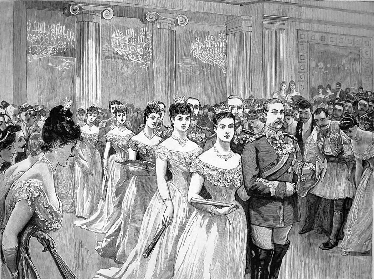 The official ball held the Royal palace of Athens on 27th October 1889 to celebrate the wedding of Constantine, crown prince of Greece, with princess Sophia of Prussia